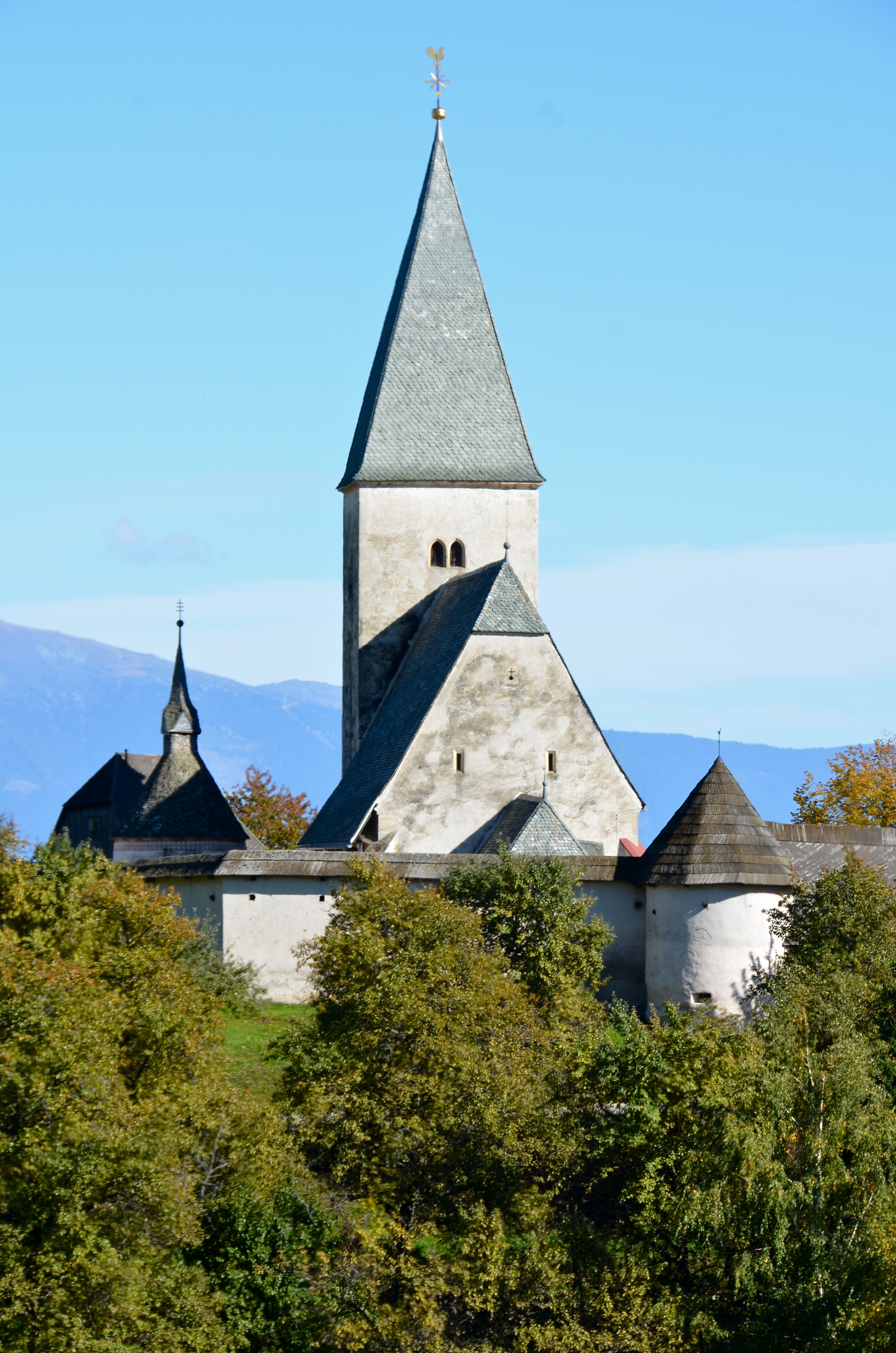 Parish church Saint Martin with fortified cemetery in Untergreutschach #5, market town Griffen, district Völkermarkt, Carinthia, Austria, EU